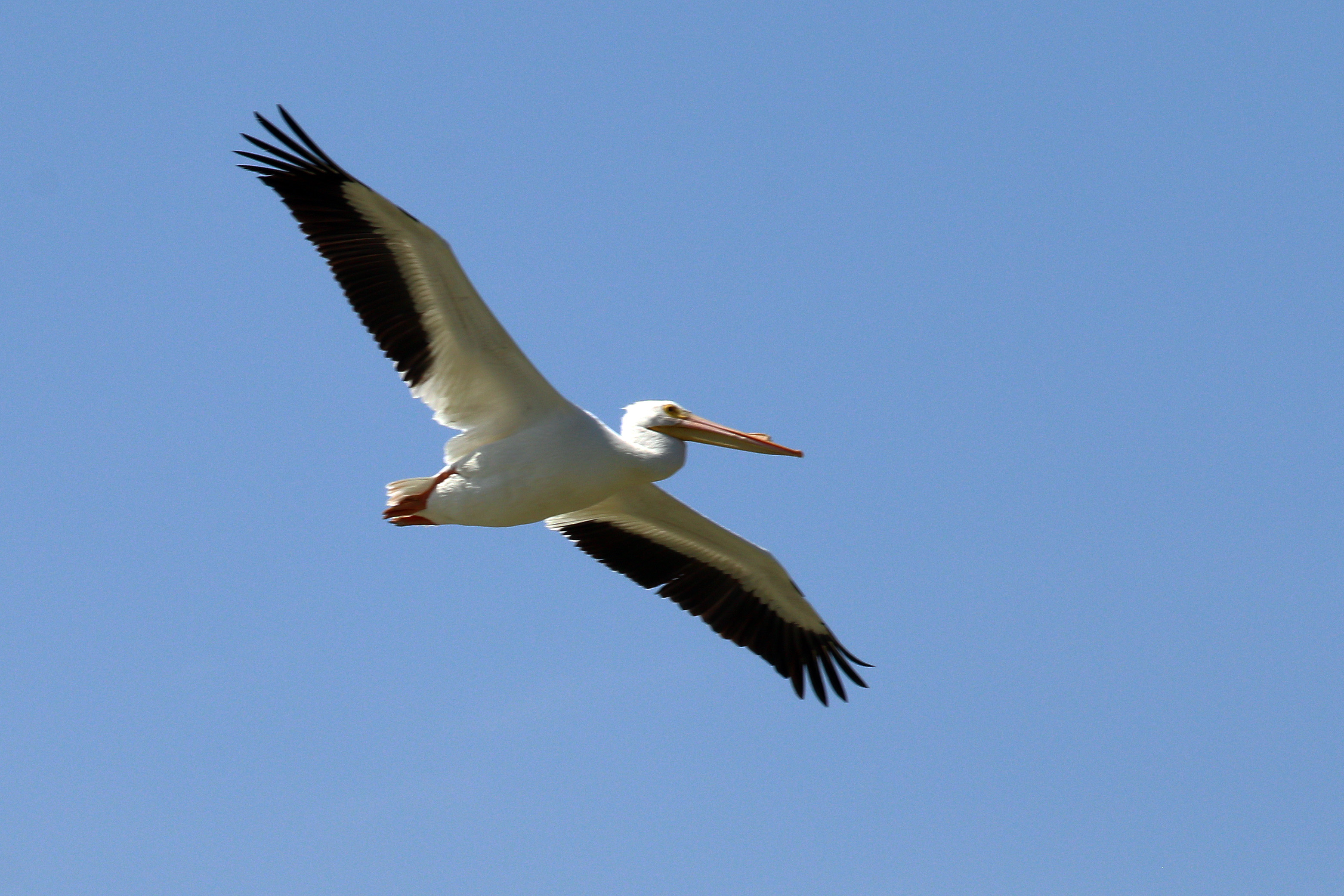 American white pelican (Pelecanus erythrorhynchos), Cuba